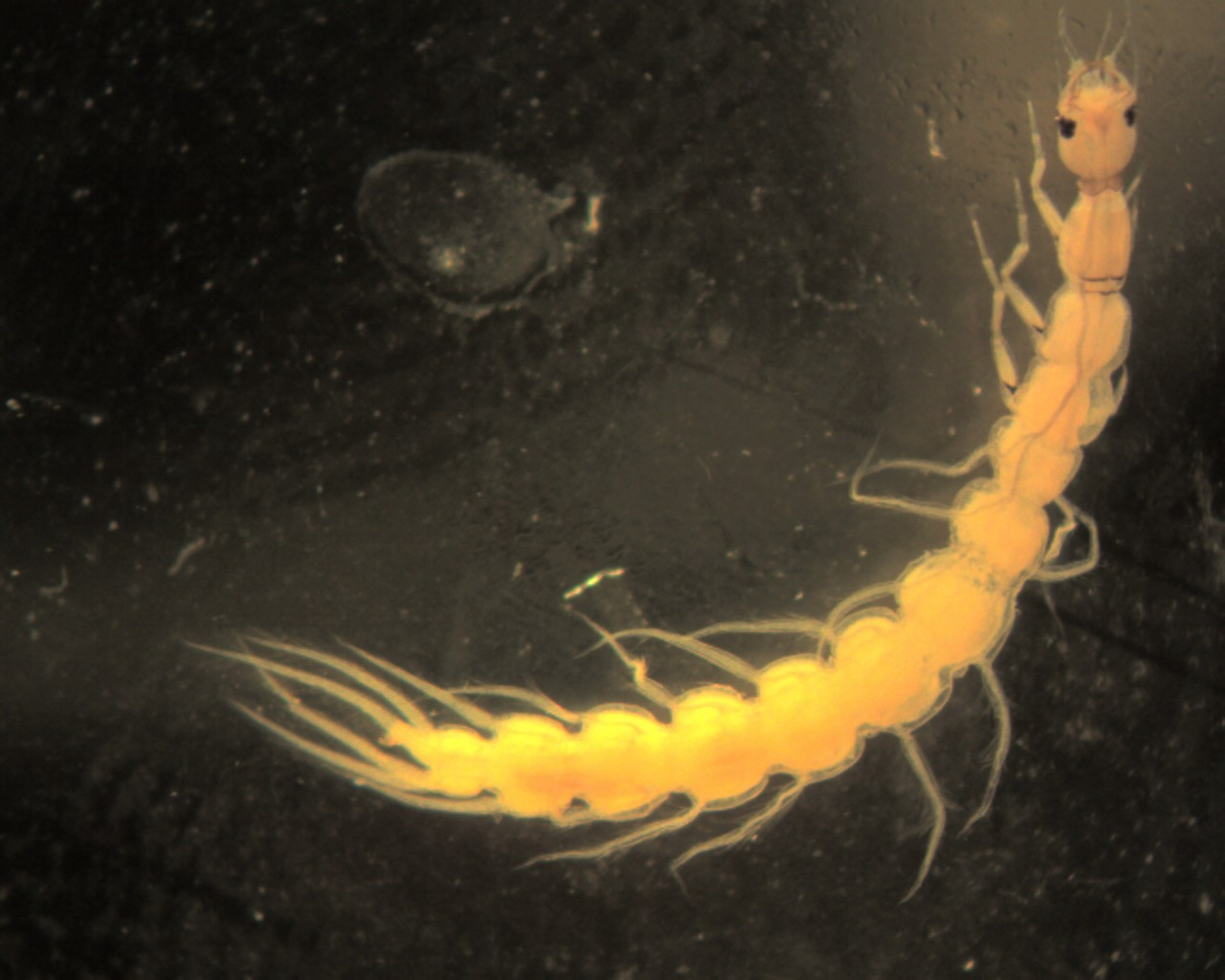 O: Coleoptera F: Gyrinidae